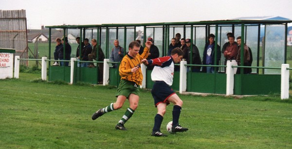 Bus Shelters PTFC